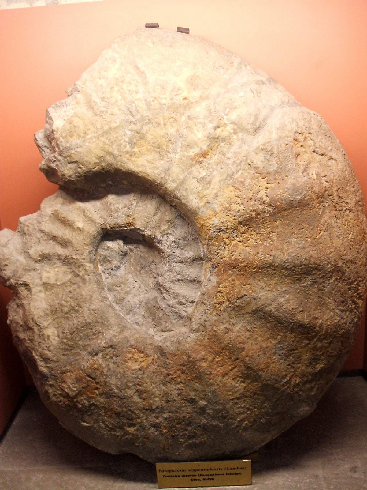 Amonita gigante de la especie Parapuzosia seppenradensis. Museo de Ciencias Naturales de Álava (Torre de Doña Ochanda), en Vitoria-Gasteiz